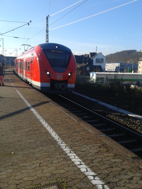 A DBAG Class 1440 S-Bahn train on its first day in service on S5/S8 service at Hagen-Wehringhausen